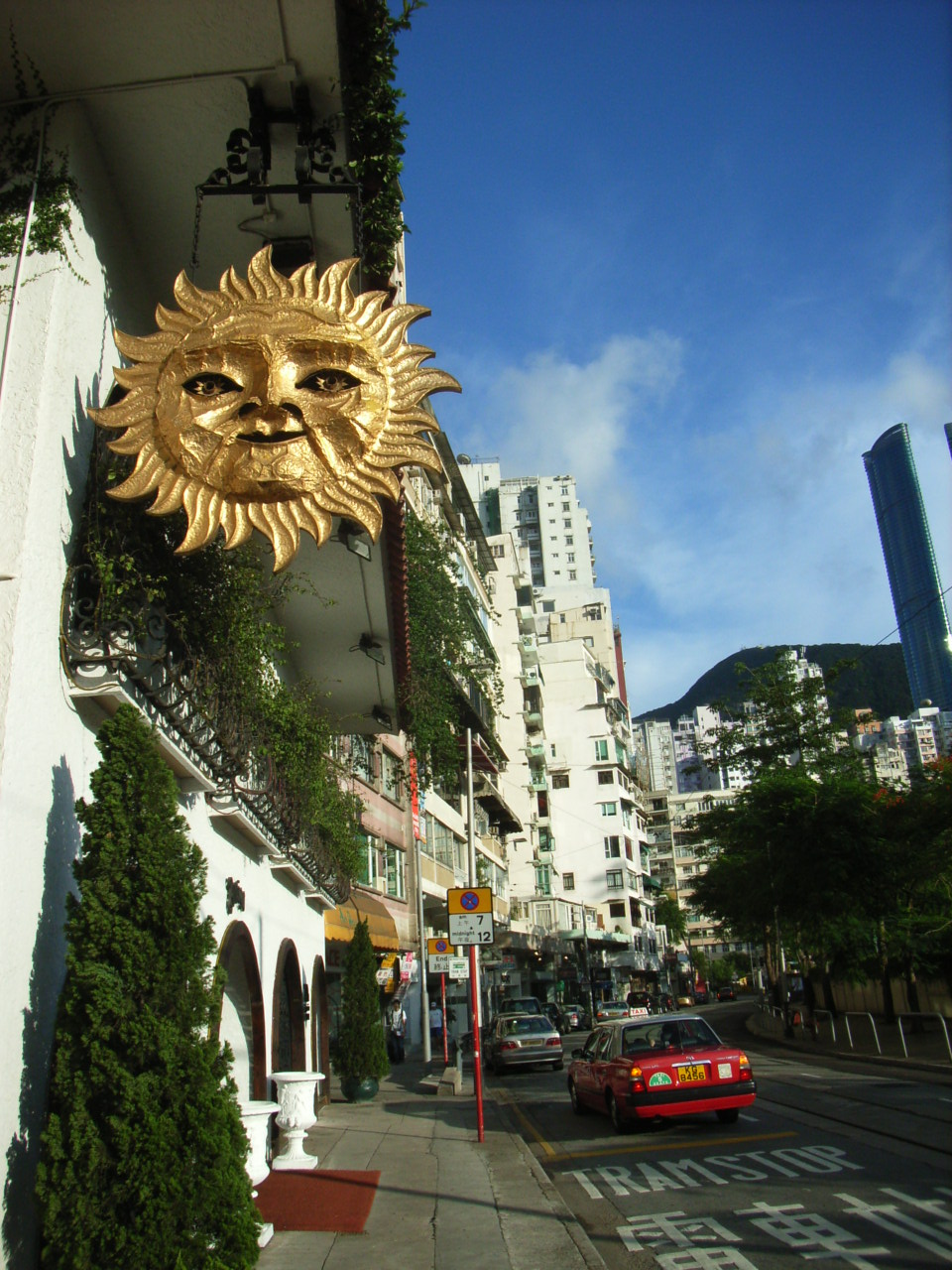 Amigo 雅谷餐廳在zh:跑馬地zh:黃泥涌道79A雅谷大廈 Author: BEVERLYSHEN